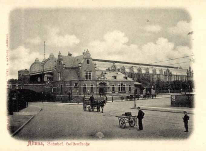 Railway Station Altona, Holstenstraße, 1898, southern view